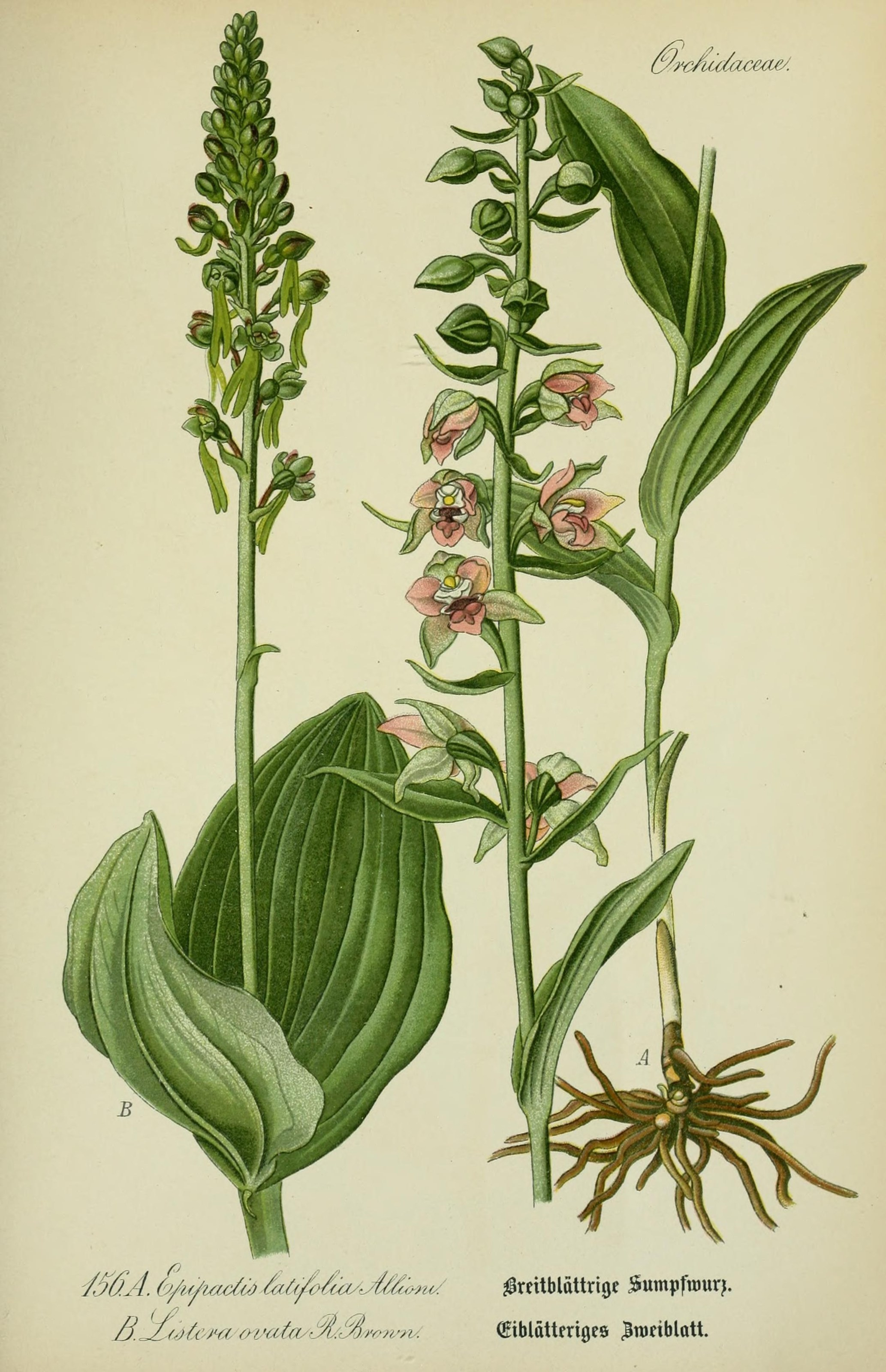 A. Epipactis latifolia allioni (Epipactis helleborine). B. Listera ovata.